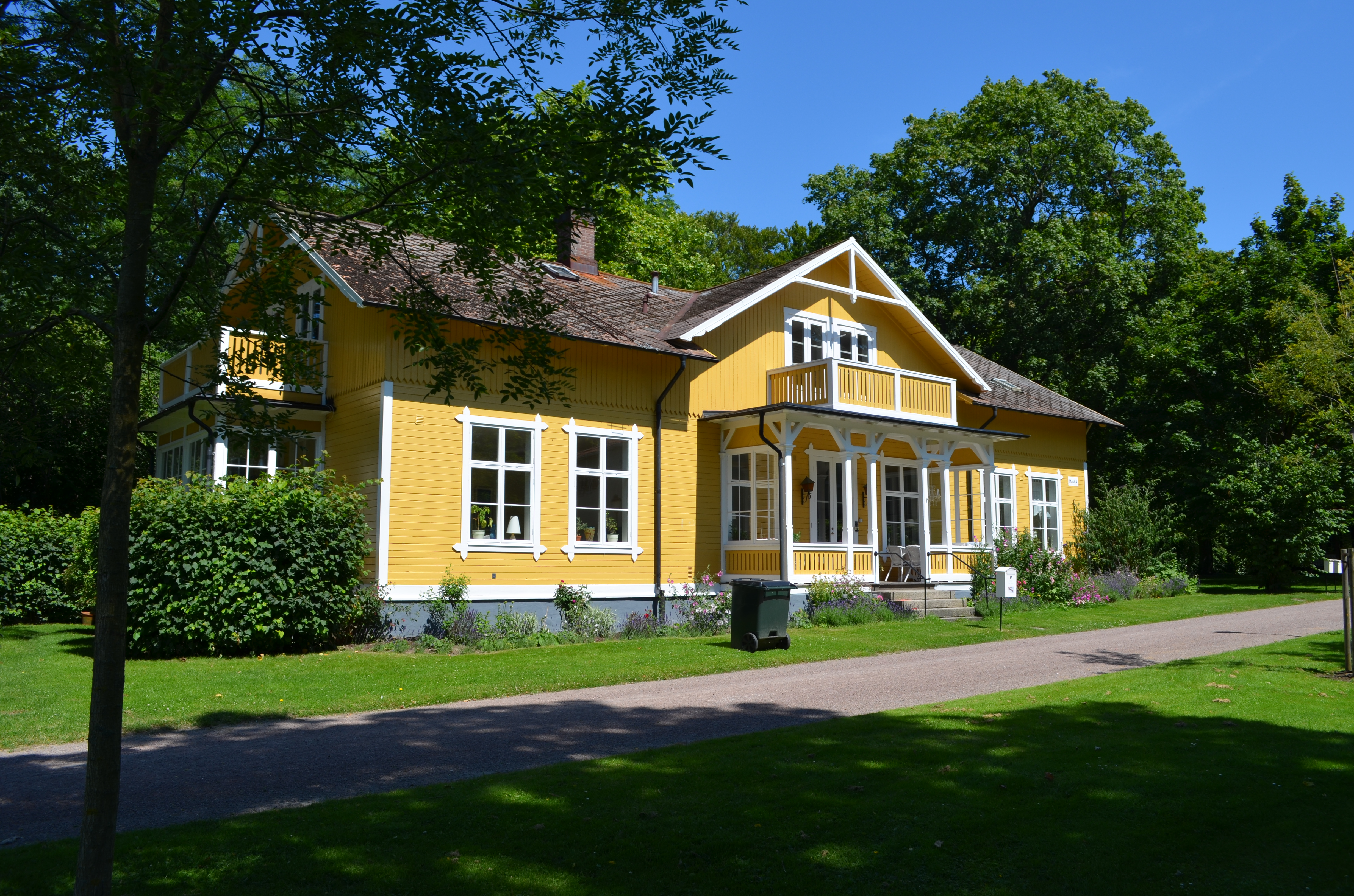 Villa Malva in Ramlösa hälsobrunn.